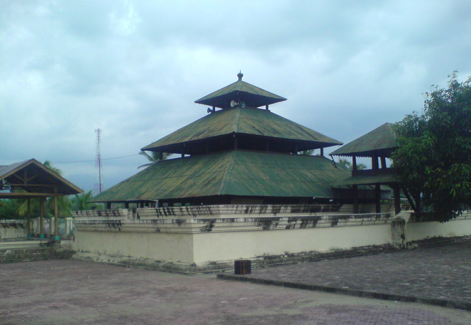 Indra Puri Mosque in Indra Puri, Aceh Besar Regency